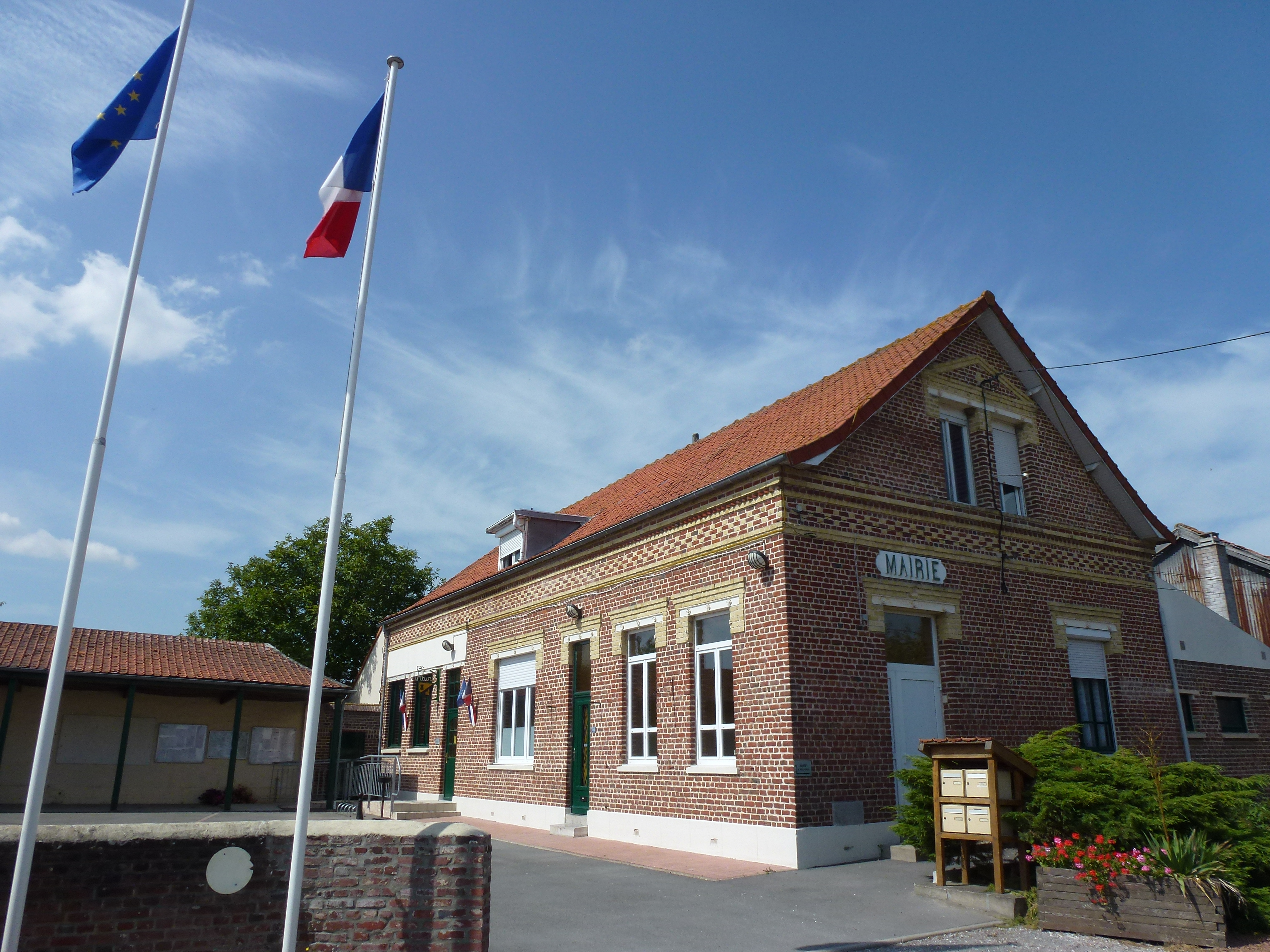 Nouvelle-Église (Pas-de-Calais) mairie